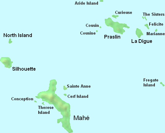 Main islands in the granitic Inner Islands archipelago of the Seychelles.